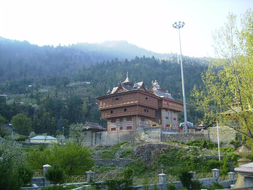 Bhimakali Temple-Sarahan, Himachal Pradesh